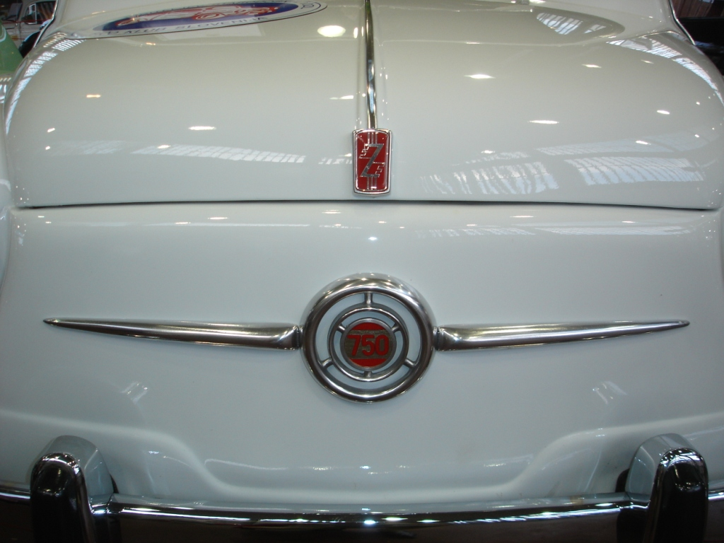 Zastava 750 (Fičo) on the 1. Oldtimer festival Codelli in Ljubljana, Slovenia; the sign of the company